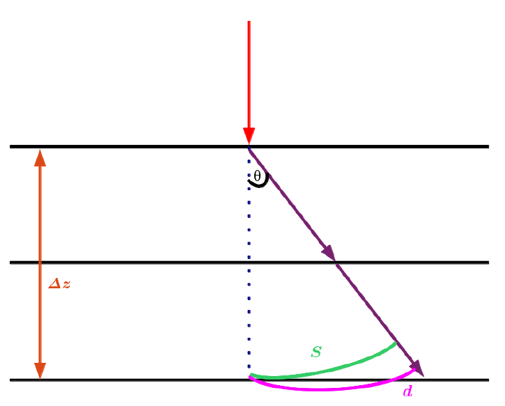 Effect of reducing slice thickness on accuracy